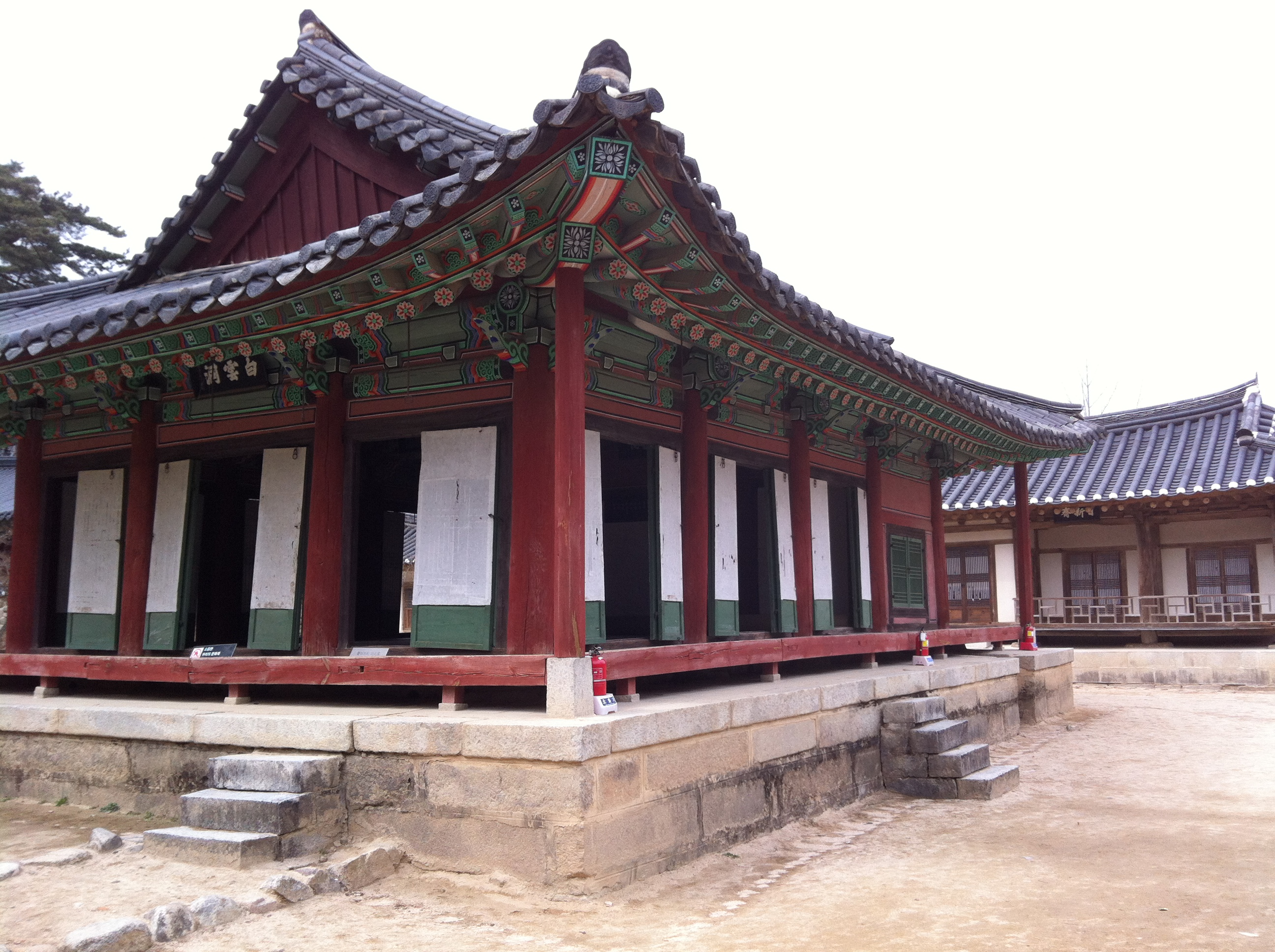 Sosu Seowon, the first Seowon, common educational institution of Korea during the mid- to late Joseon Dynasty.